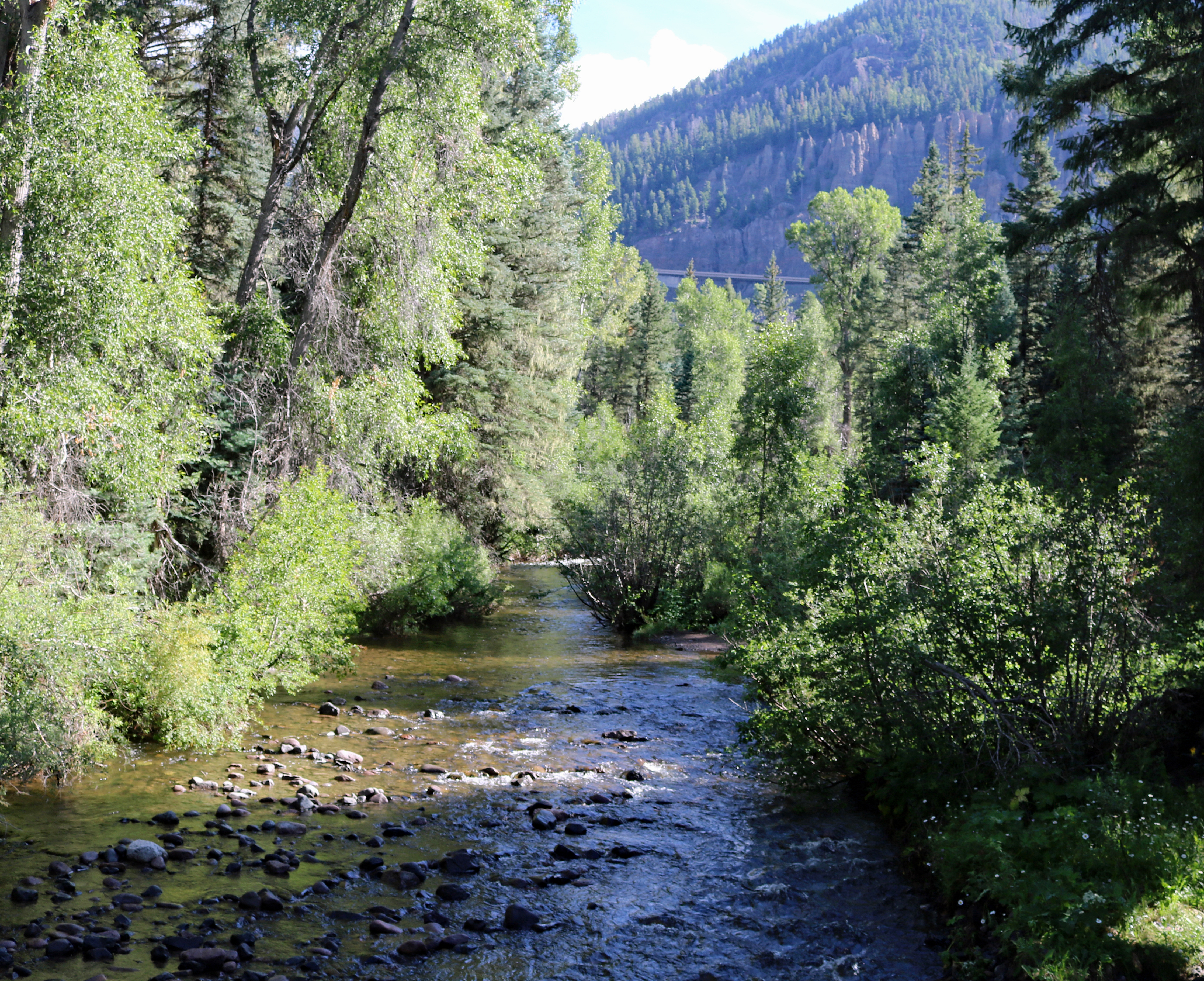 Wolf Creek, a stream in Mineral County, Colorado. Wolf Creek Pass takes its name from the creek and part of the highway on the west side of the pass can be seen in the picture. The picture was taken from a bridge over the creek on Forest Road 648.